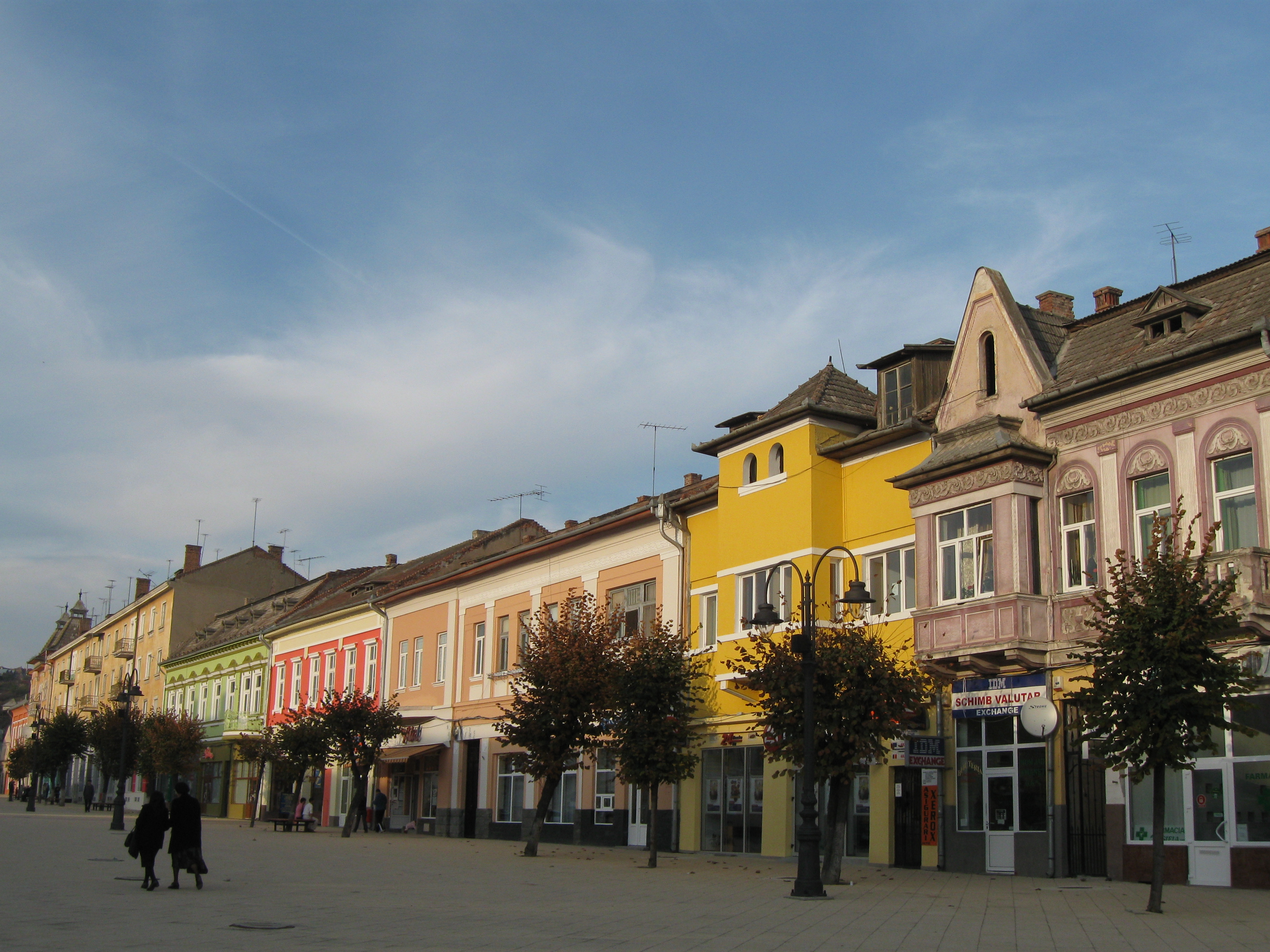 Turda - main street (Romania)